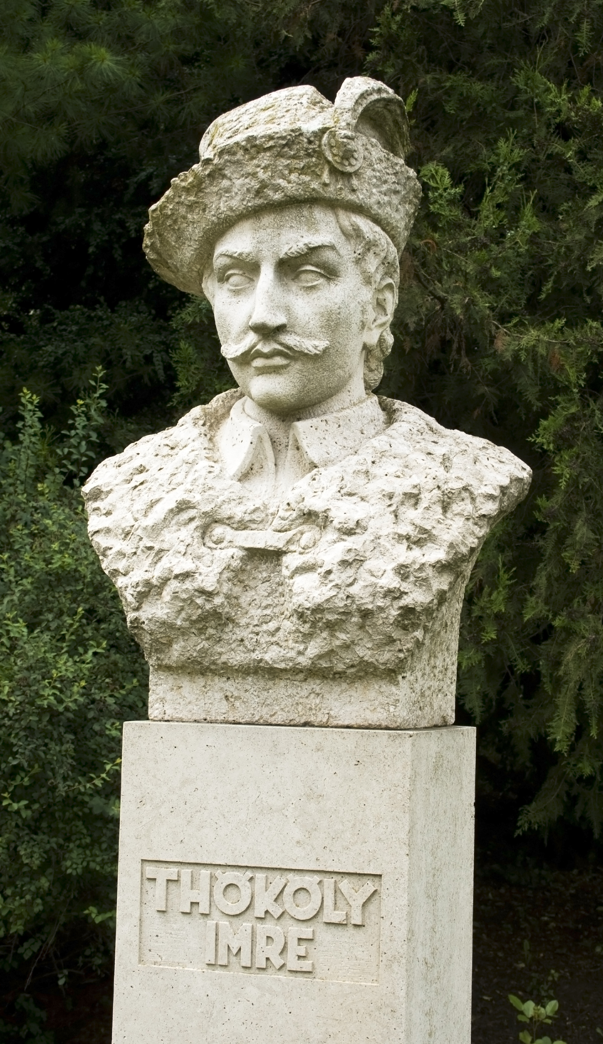 Bust of Imre Thököly in the park of the Vaja Castle, Hungary – István Cs. Kovács, 1978